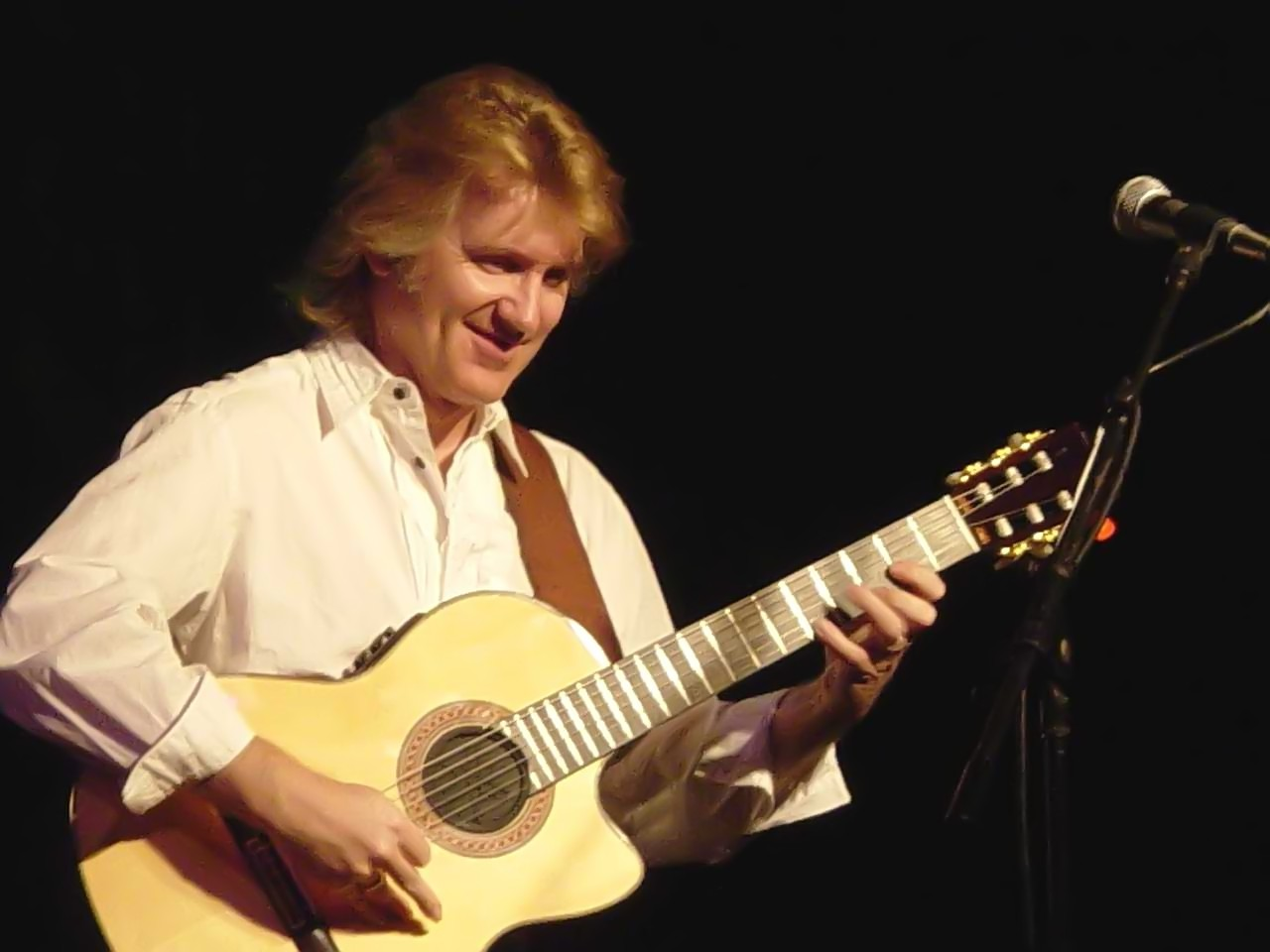 Rik Emmett at The Coach House, San Juan Capistrano. 10 October 2002.